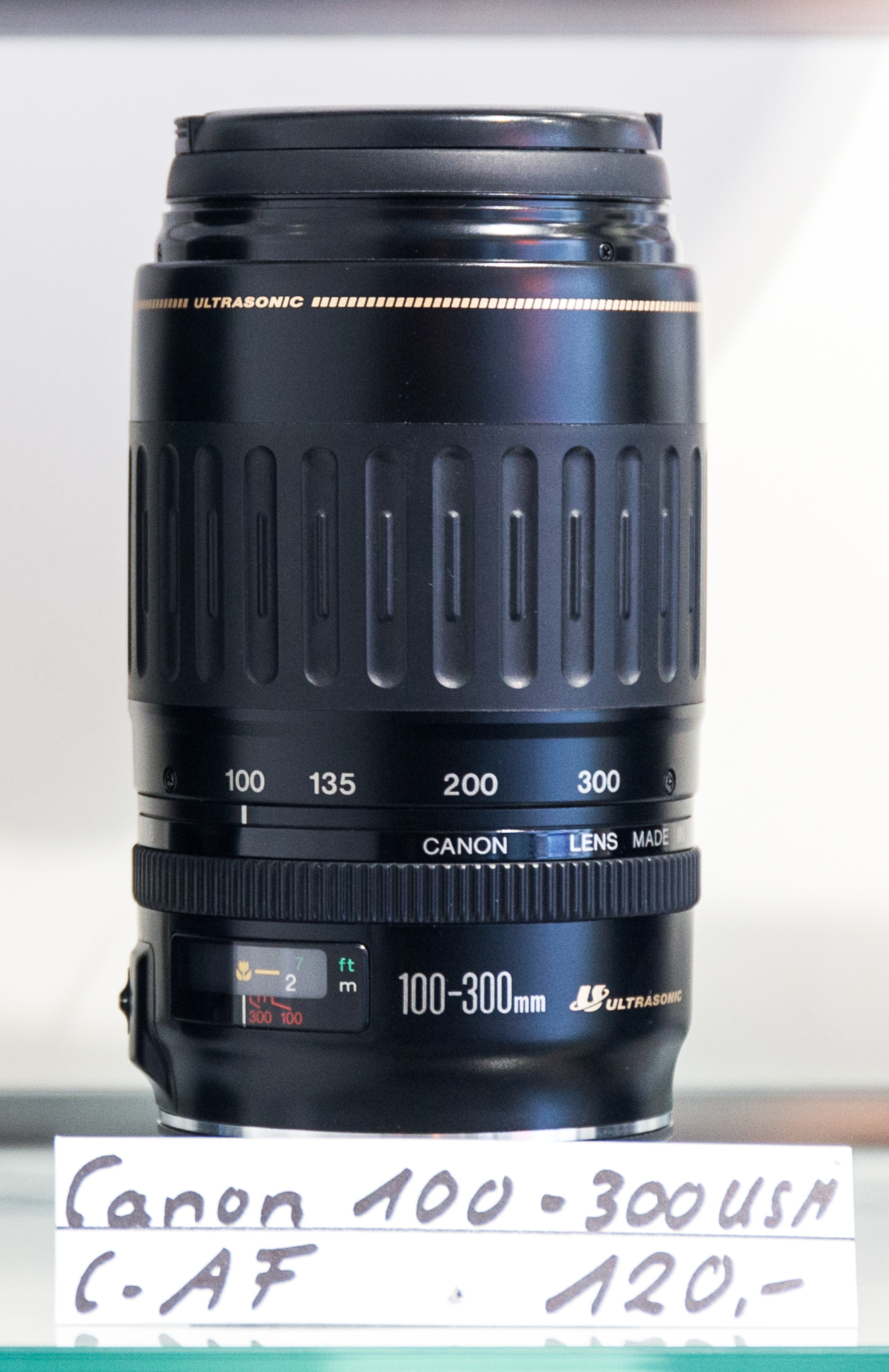 Canon 100-300 mm